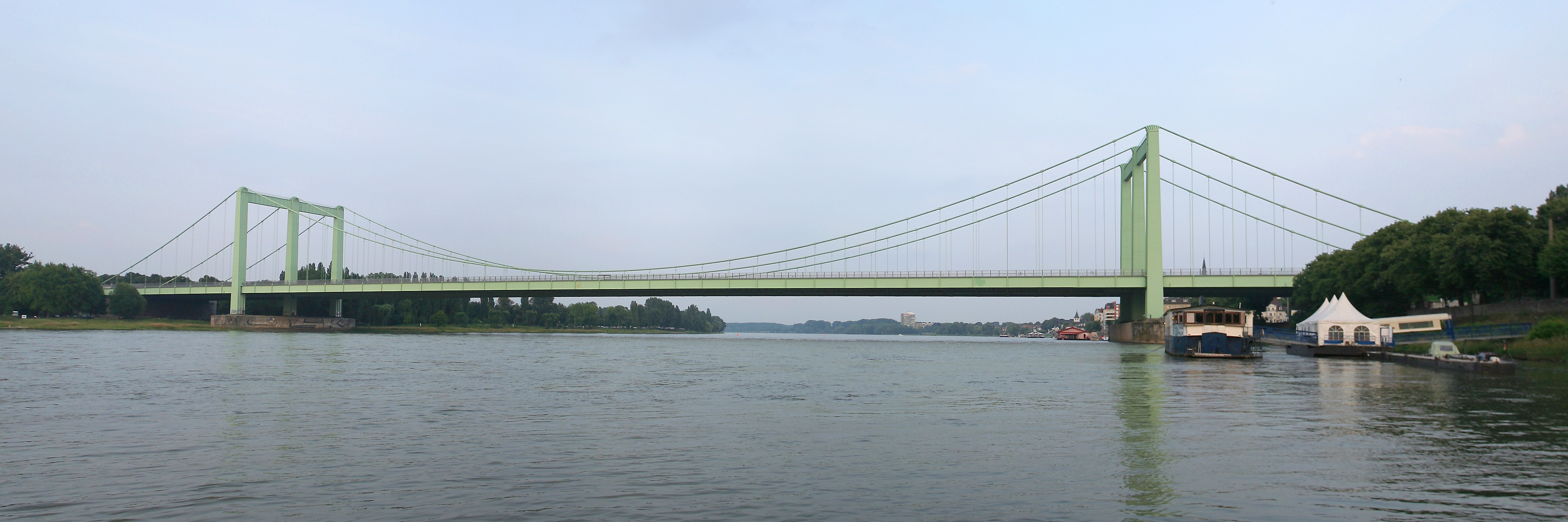 The Cologne Rodenkirchen Bridge over the Rhine. This image is stitched from four single shots using PTGui. NOTE: This image is a panorama consisting of multiple frames that were merged or stitched in software. As a result, this image necessarily underwent some form of digital manipulation. These manipulations may include blending, blurring, cloning, and colour and perspective adjustments. As a result of these adjustments, the image content may be slightly different from reality at the points where multiple images were combined. This manipulation is often required due to lens, perspective, and parallax distortions. This is a photograph of an architectural monument.